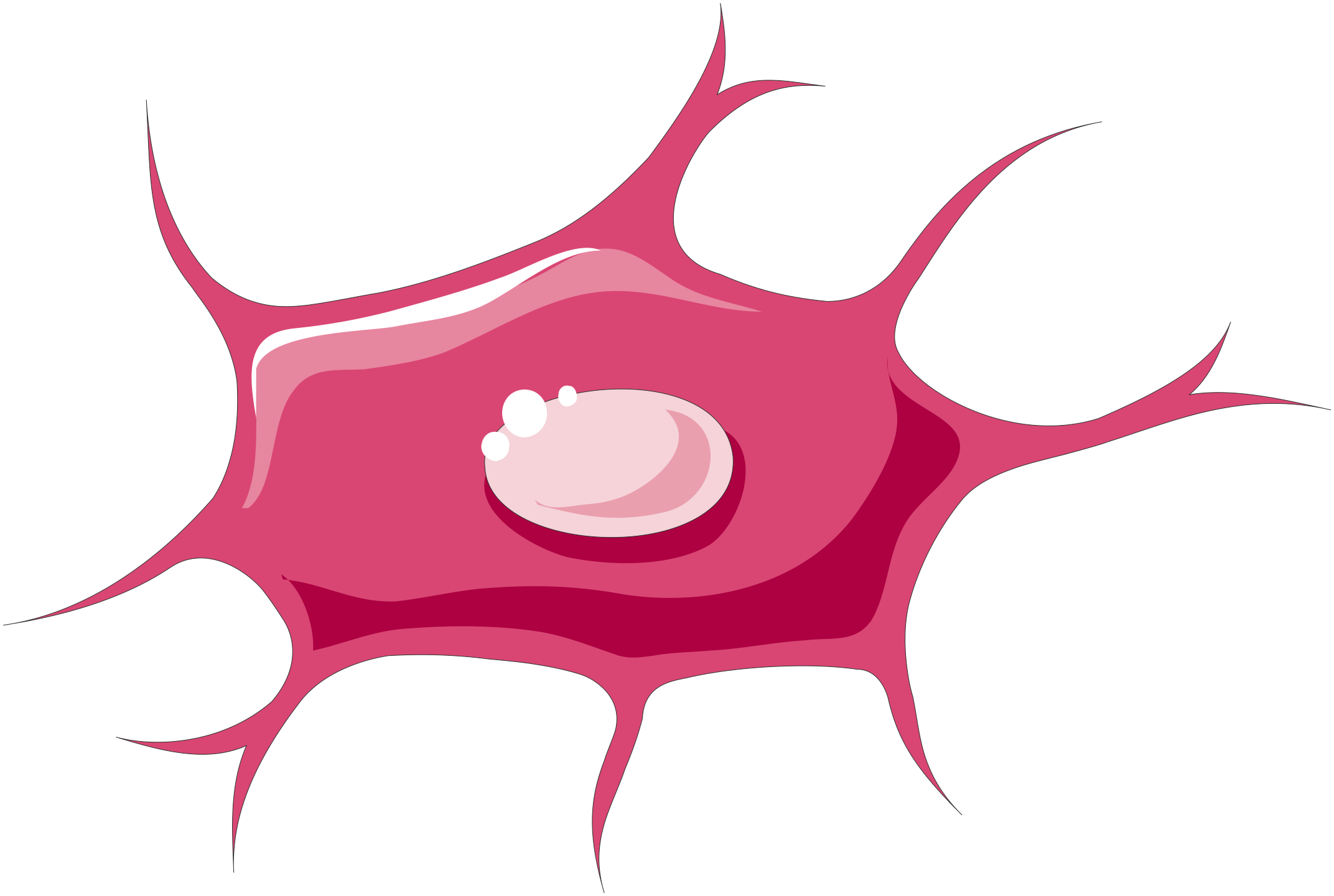 Bone structure - Bone cells - Osteocytes